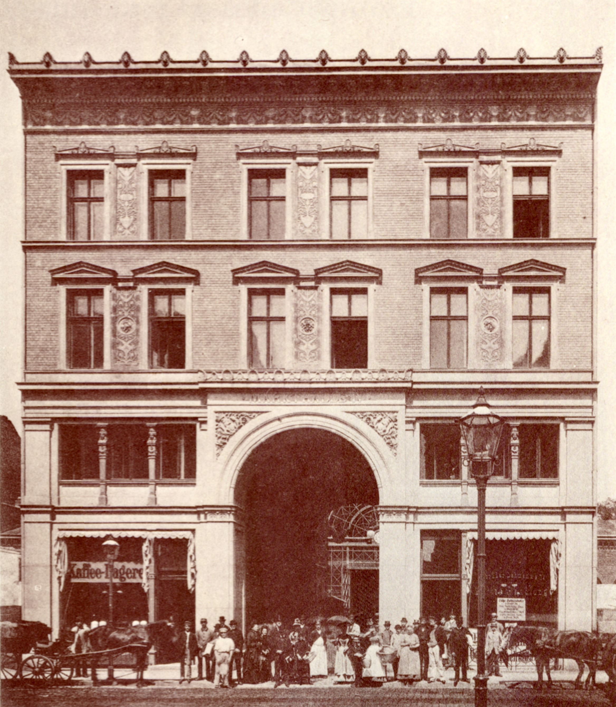 Berlin - market hall IV at Dorotheenstraße 29 around 1890